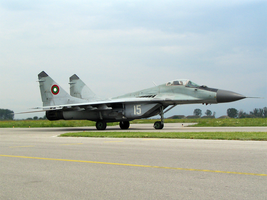 Bulgarian Mikoyan-Gurevich MiG-29, C/N:26321, taxing for take-off. Taken on June, 1st, 2005